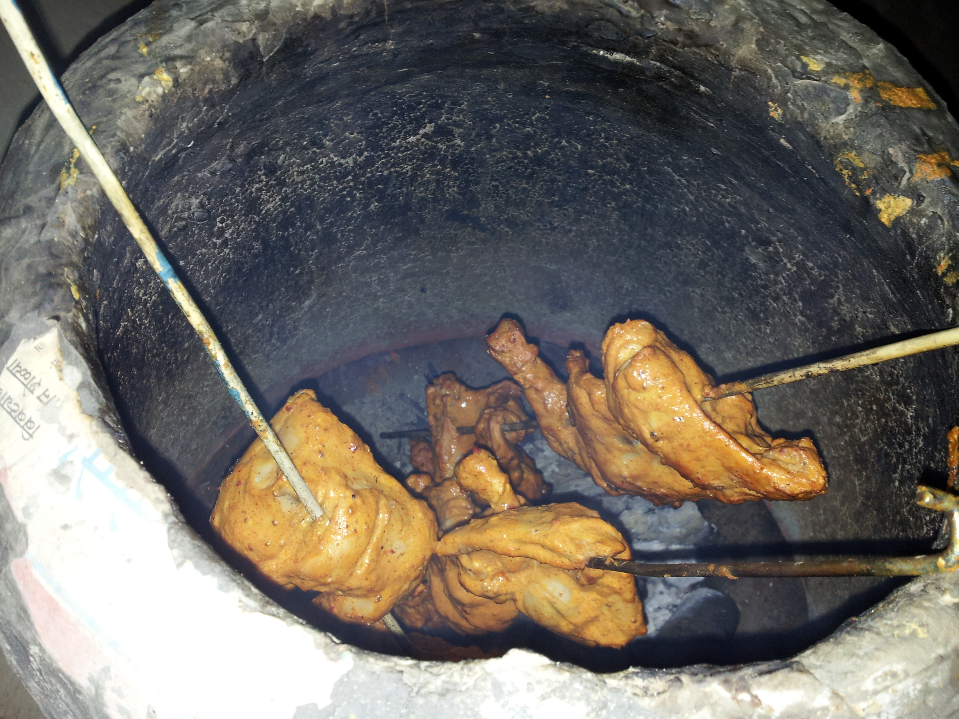 Tandoori Chicken is cooked in clay oven called the Tandoor. Tandoor is heated by the charcoal or wood which also provide the smoky falvour to it. Marinated chicken skewed on skewer and cooked in Tandoor.